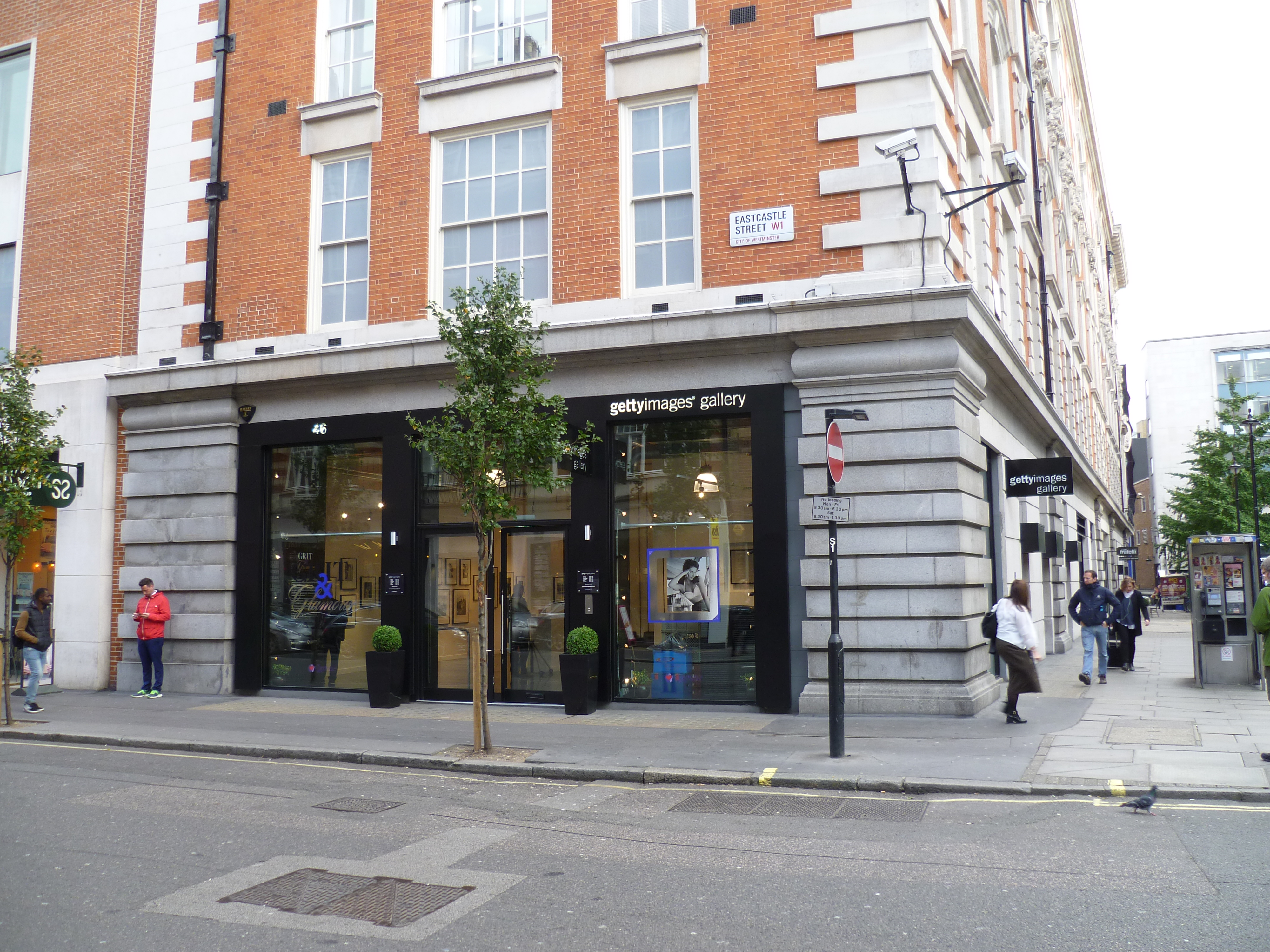 London